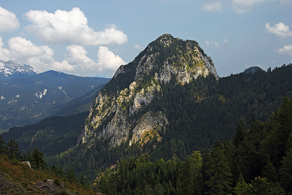 Stegovnik summit, Karavanke mountains.